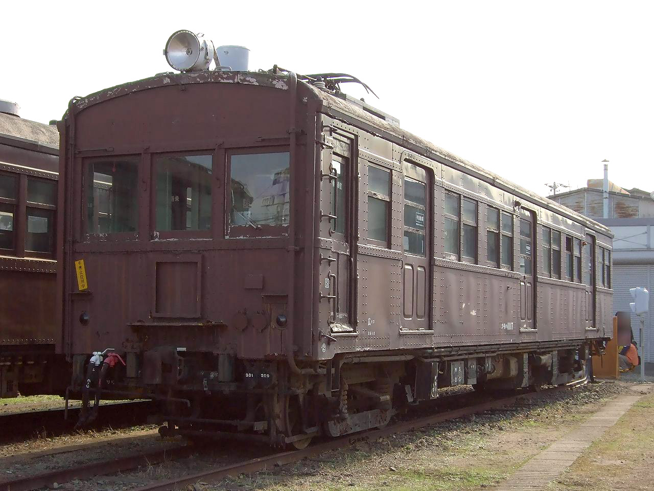 Preserved JNR KuMoHa 11 EMU car KuMoHa 11117 at Shimonoseki Depot open day in Yamaguchi Prefecture, Japan